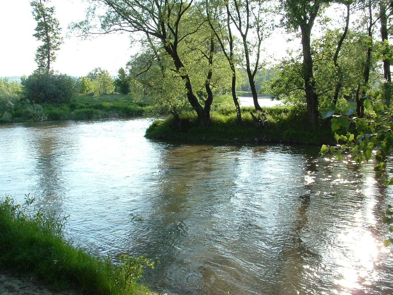 the Bódva and Sajó rivers' meeting in Hungary